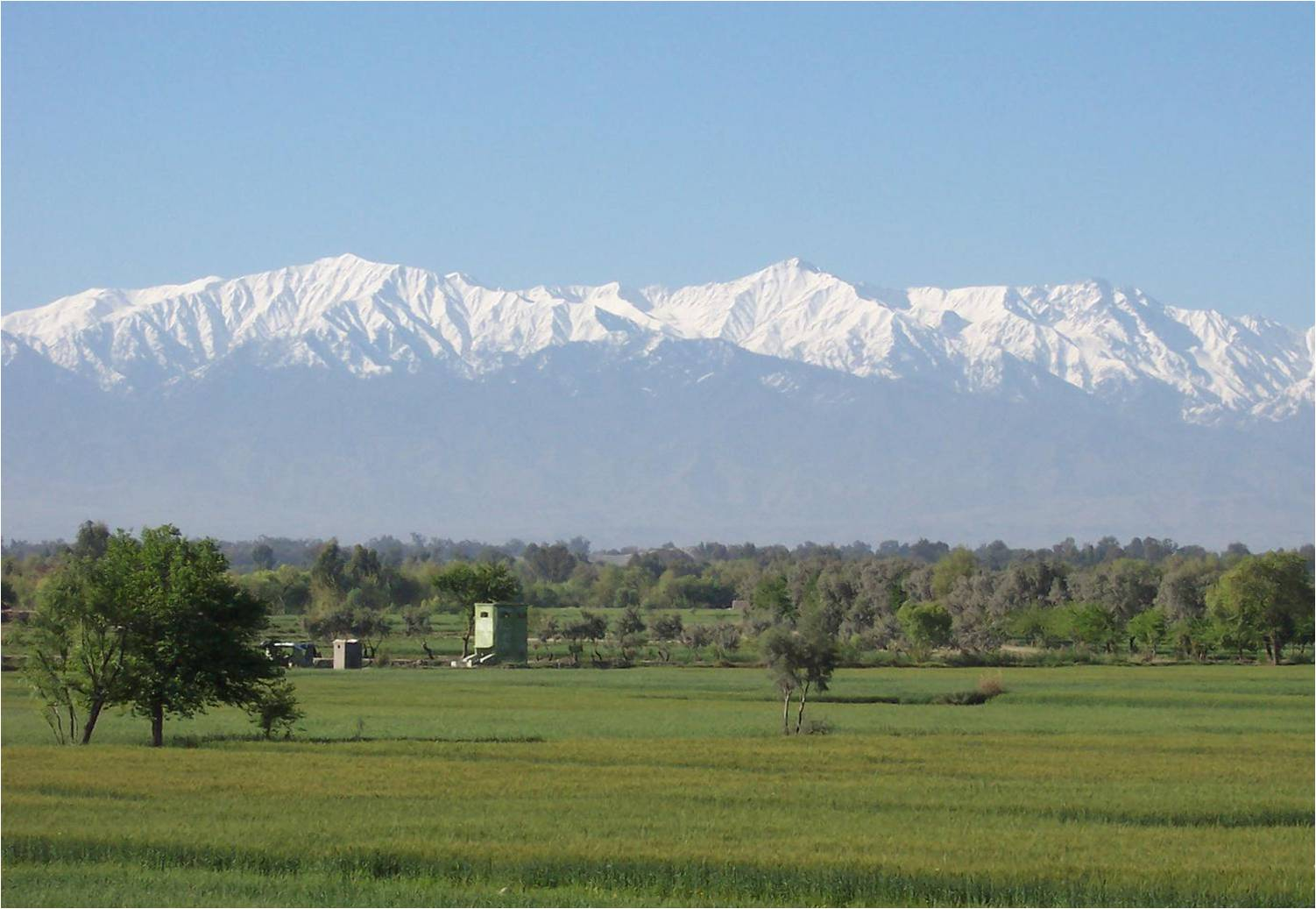 Khogyani District, Nangarhar Province, Afghanistan. Looking south to the Tora Bora (Koh-i-Safed) mountains.